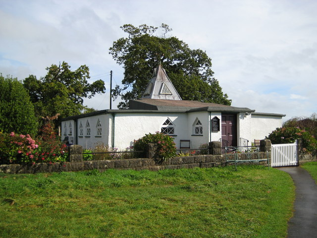 Exmouth: Point-in-View Chapel Built in 1811 on the instructions of the Parminter cousins, Mary and Jane, who lived in nearby 1038751, the structure contains a tiny chapel 998476 and living quarters which were once the residence of the reverend and four single ladies. The Parminters, Jane (1750-1811) and Mary (1767-1849), are buried inside. The structure is a Grade I Listed Building. The chapel remains independent, although it is affiliated to the United Reformed Church.